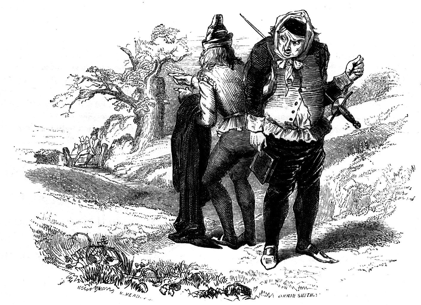 Sir Hugh Evans and Simple from The Merry Wives of Windsor. From The Works of Shakespeare edited by Barry Cornwall, engraved by John Orrin Smith after an illustration by Kenny Meadows.